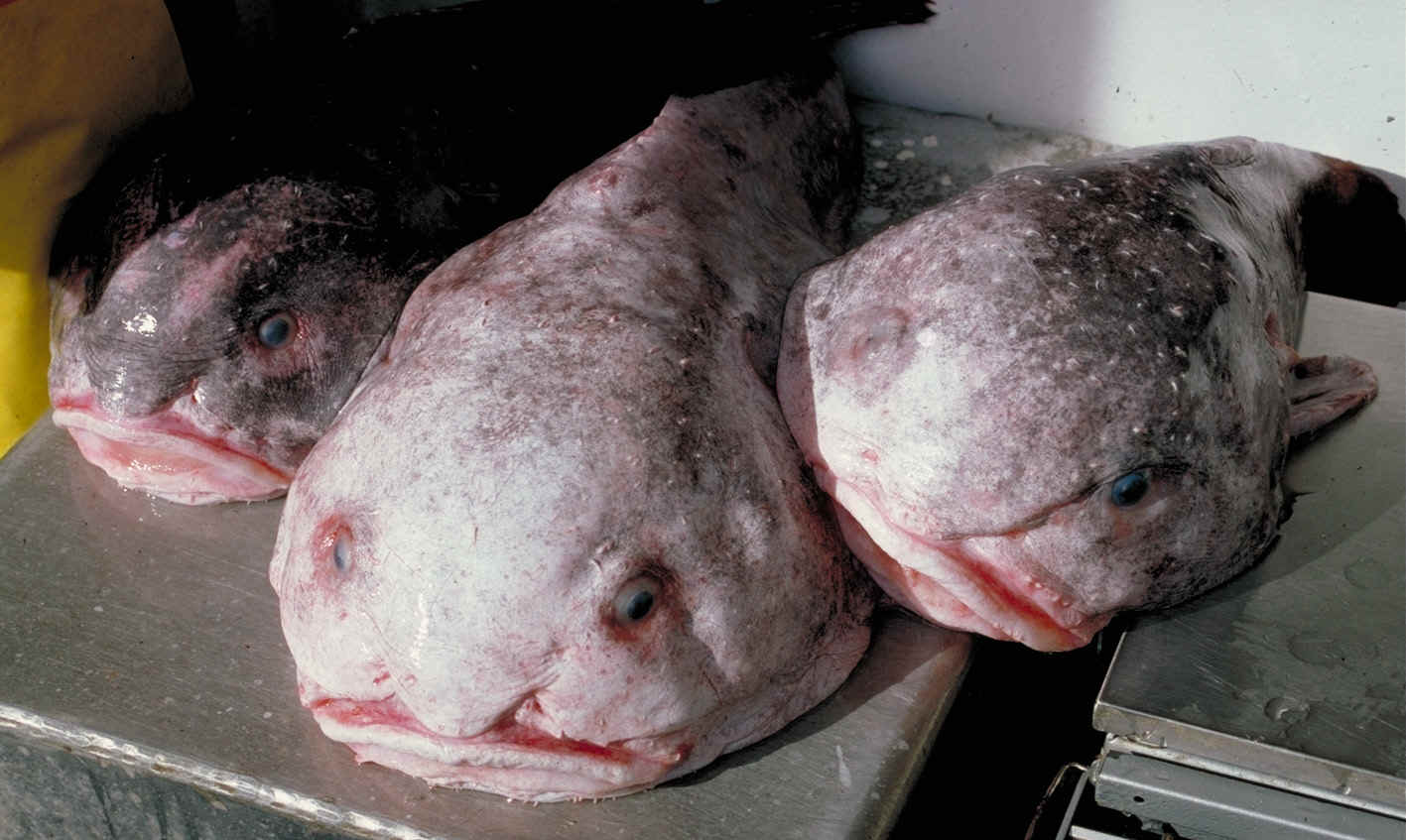 Psychrolutes phrictus